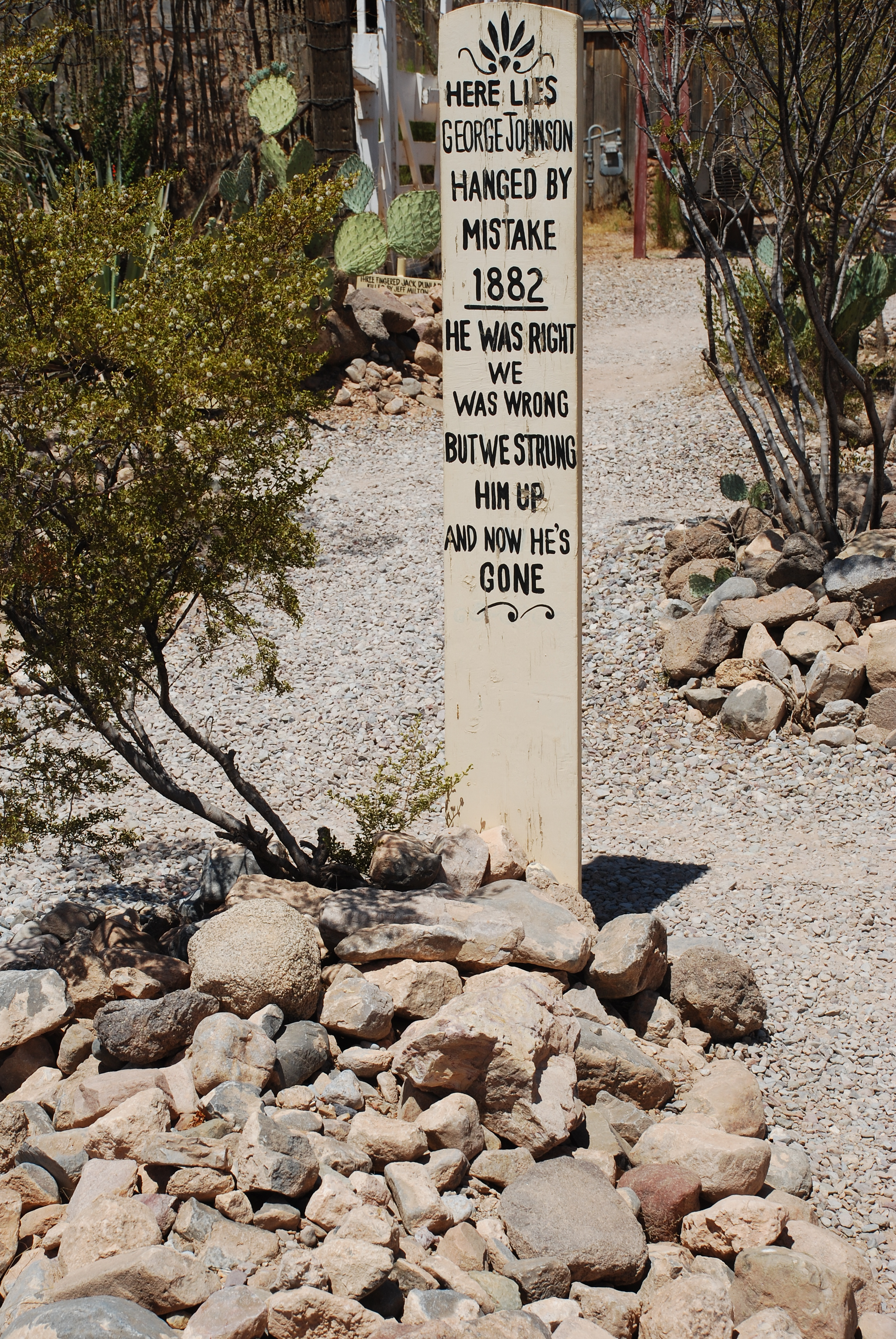 Gravestone on Boot Hill Graveyard, Tombstone, Arizona